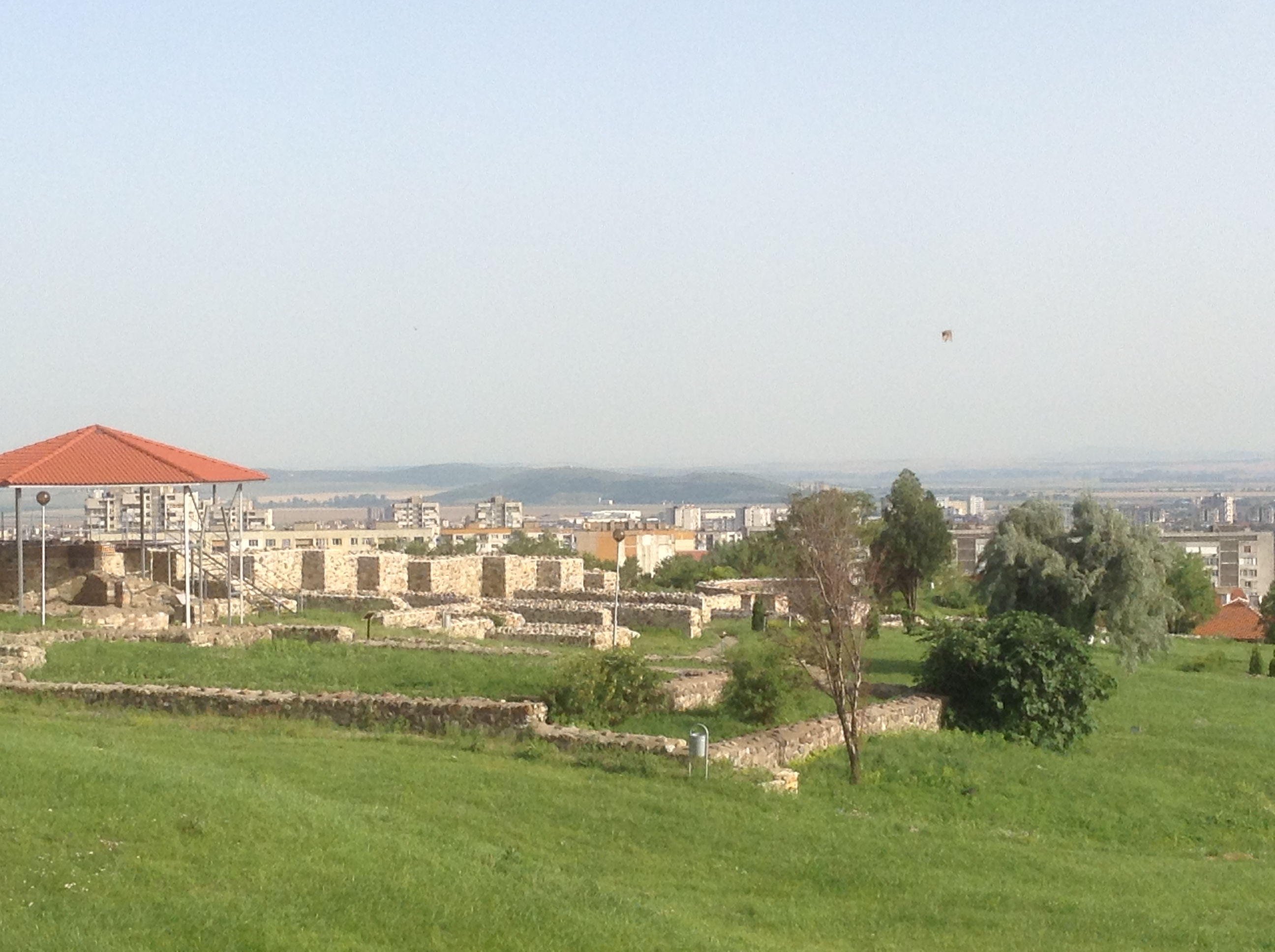 Античен град и крепост Туида, Сливен